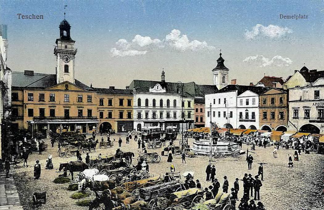 Postcard of Teschen, East Silesia, Austrian-Silesia.